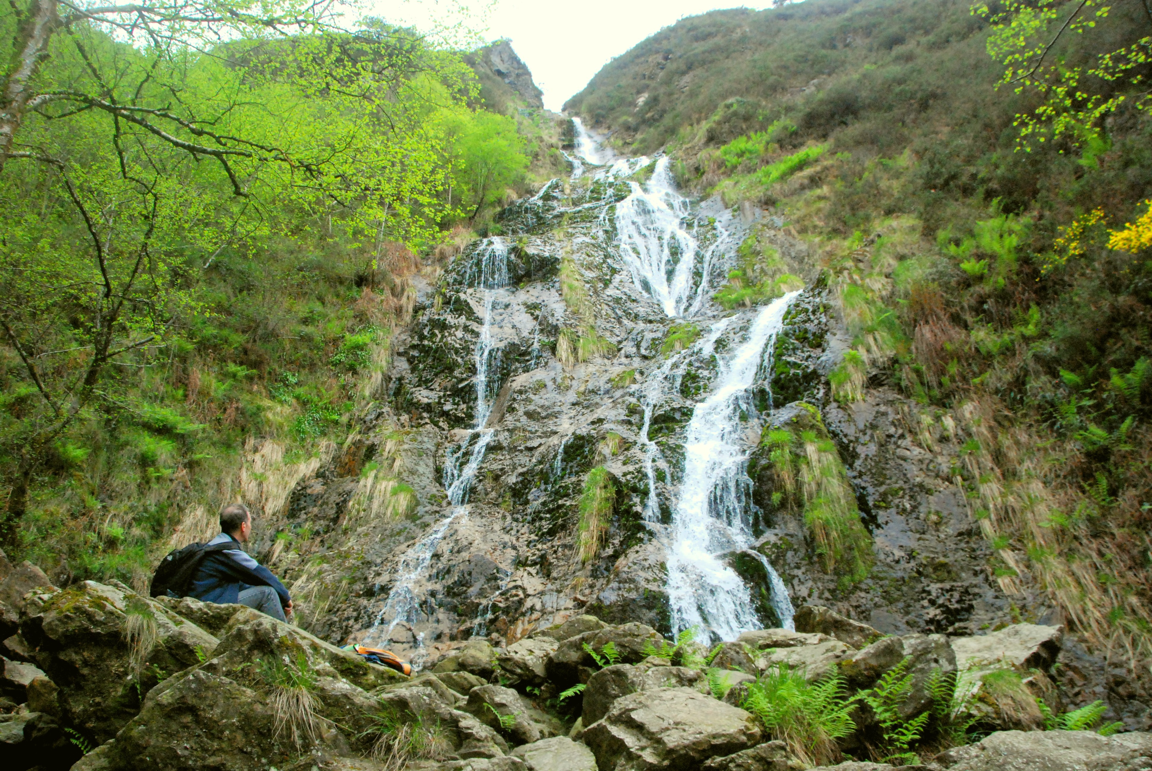 The waterfall of Aitzondo in Irun